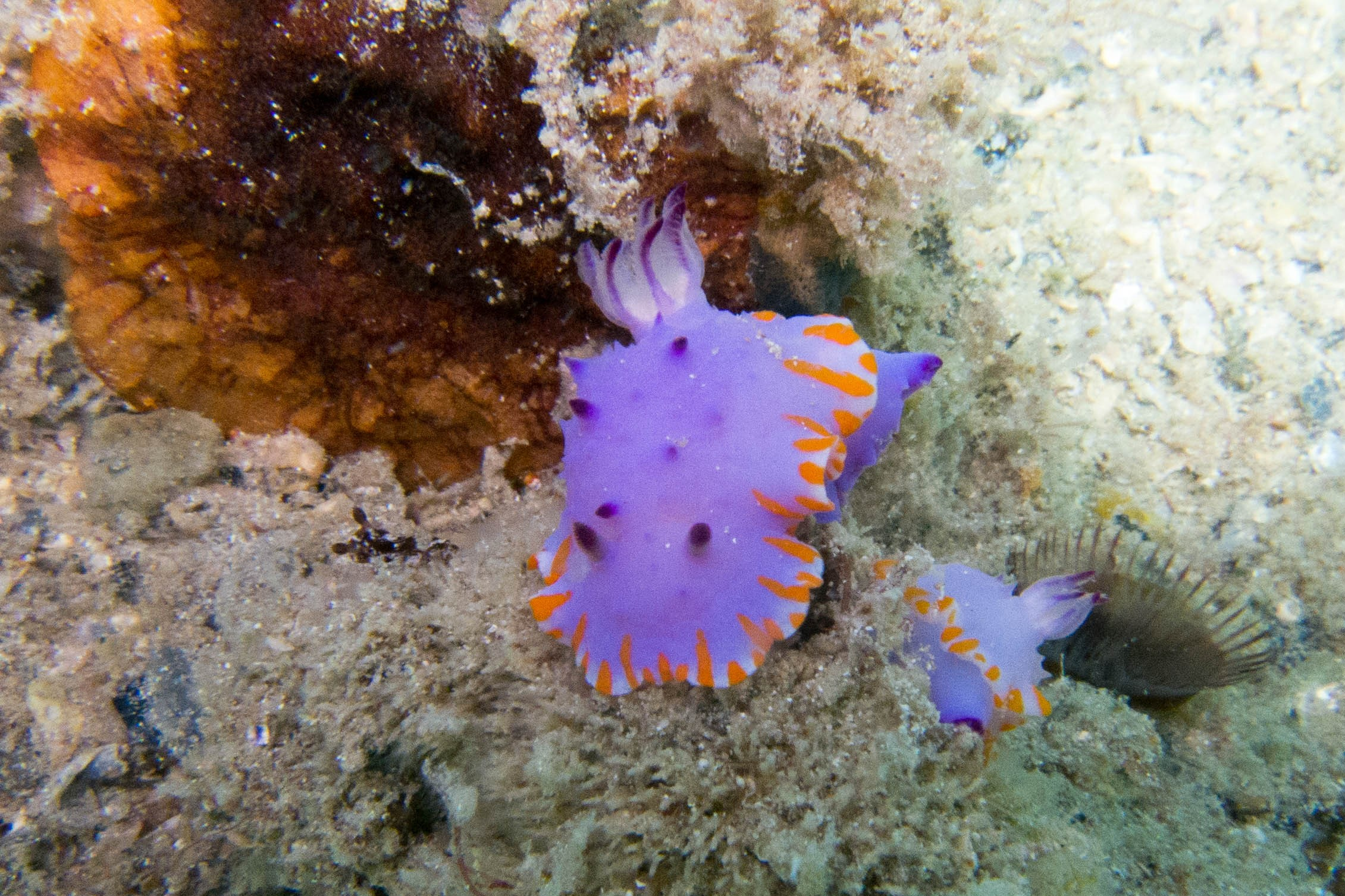 Mexichromis macropus (Rudman, 1983)